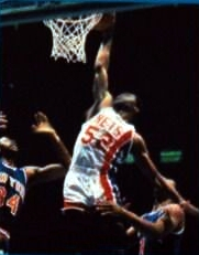 New Jersey Nets' forward Buck Williams (center) dunking the ball against the New York Knicks, circa 1986-1988.